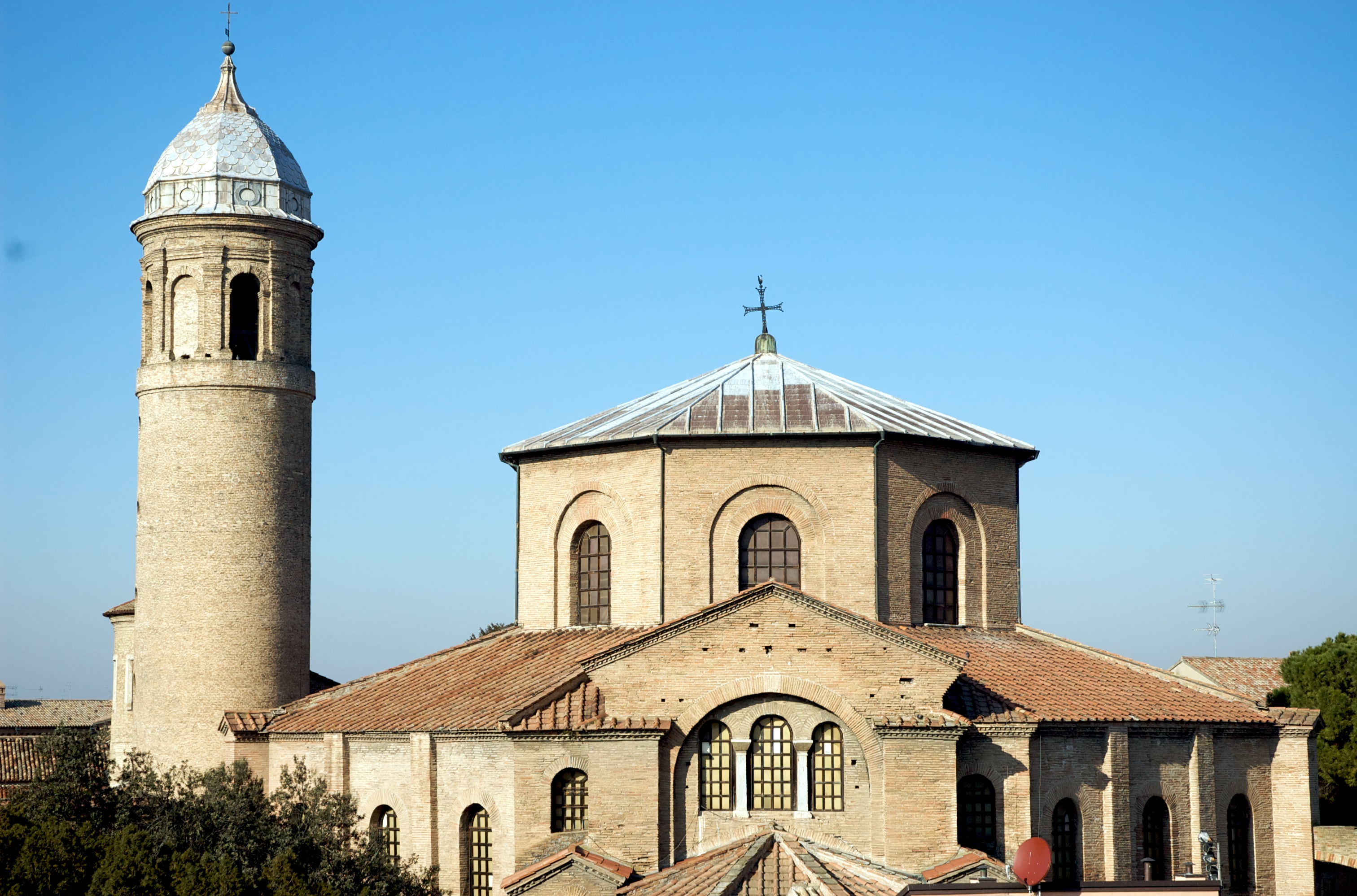 Ravenna, Italy. Roman-catholic church San Vitale, exterior view.